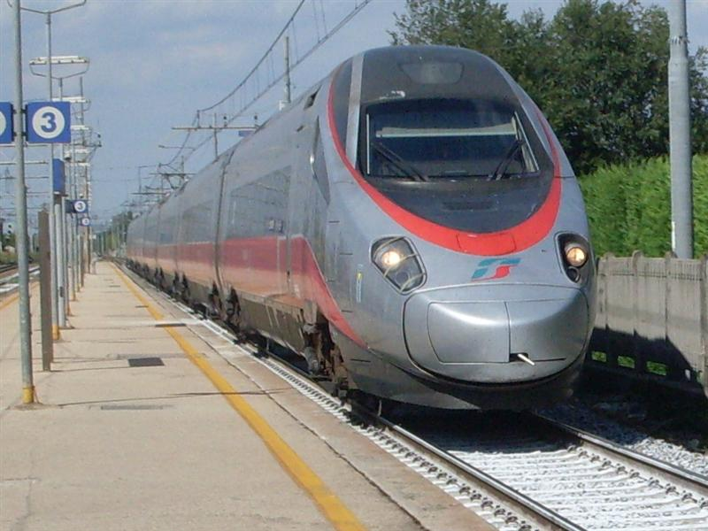 ETR600 Frecciargento